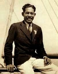 The filipino athlete and politician Siemon Toribio.